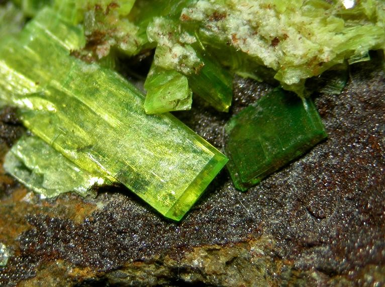 Saléeite Locality: Ranger Mine, Jabiru, Kakadu National Park, Northern Territory, Australia Field of view 8 mm. Specimen and photo Leon Hupperichs.